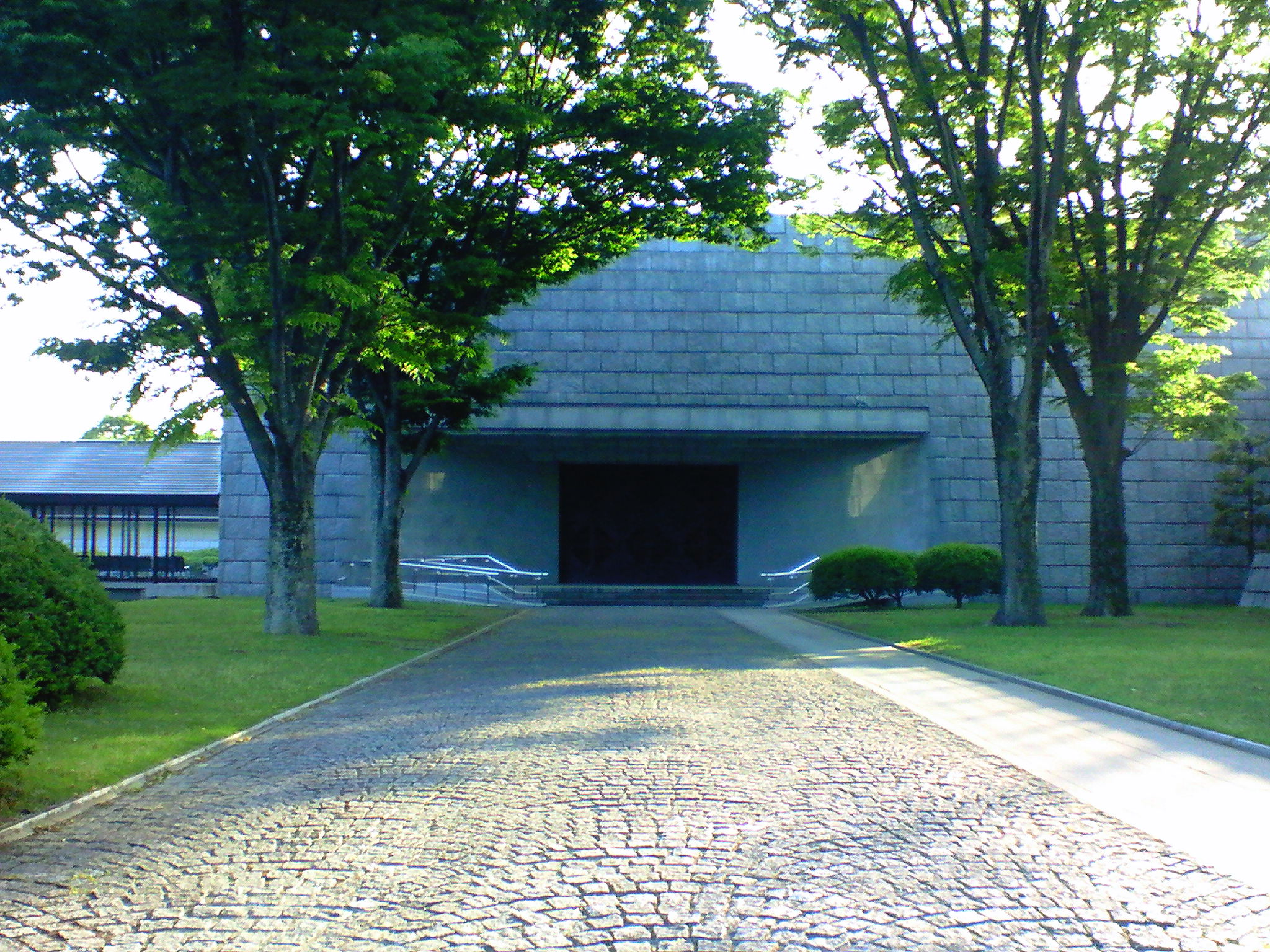 Main-building-of-ibaraki-prefectural-museum-of-history.jpeg